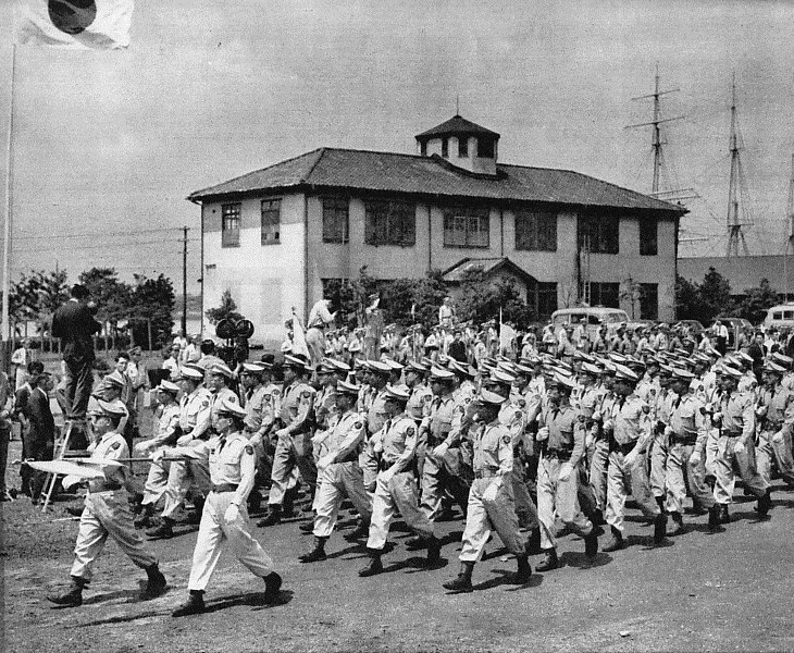 Military parade celebrating establishment of JGSDF (Japan Ground Self-Defense Force)